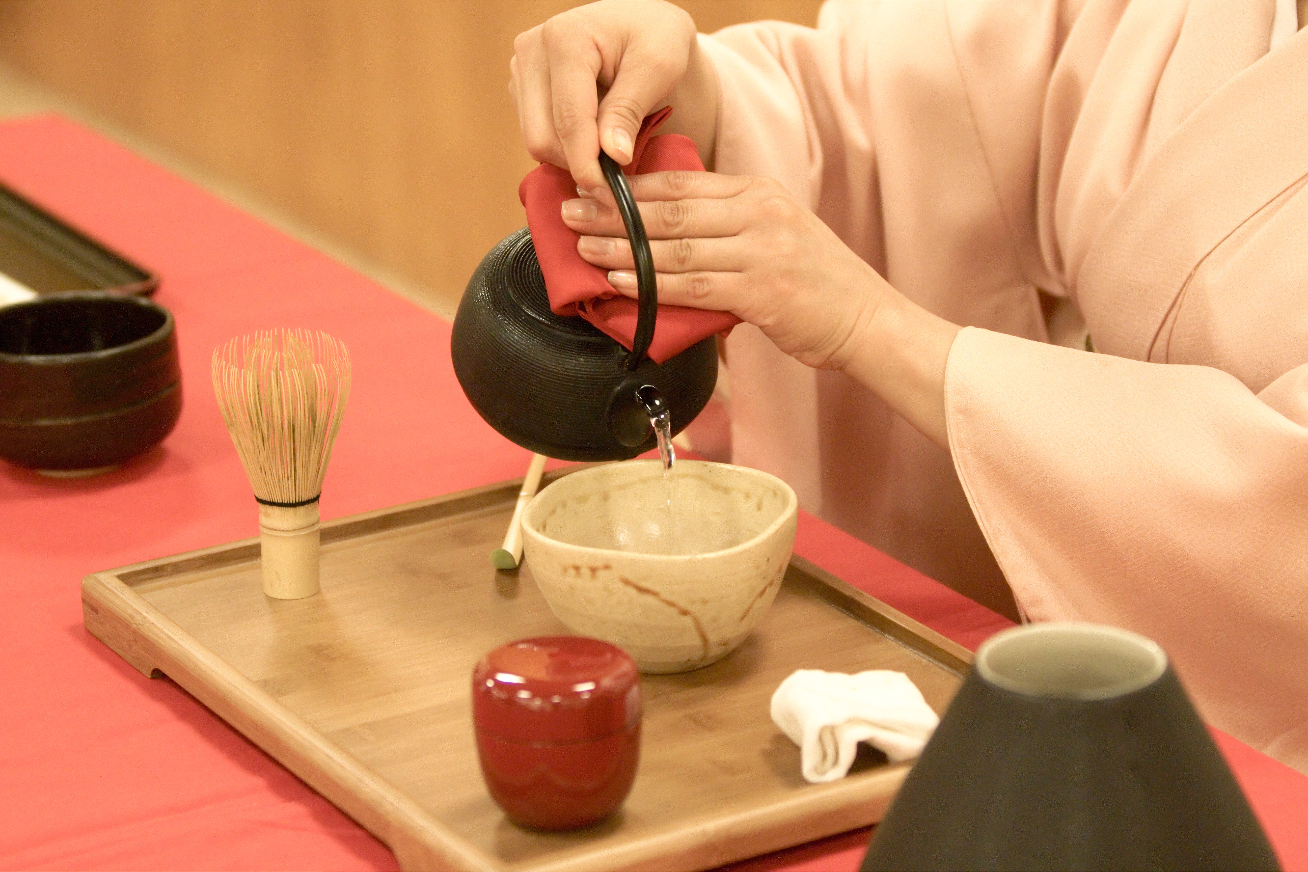 Japanese tea ceremony at Japan Matsuri 2010 (Montpellier, France).